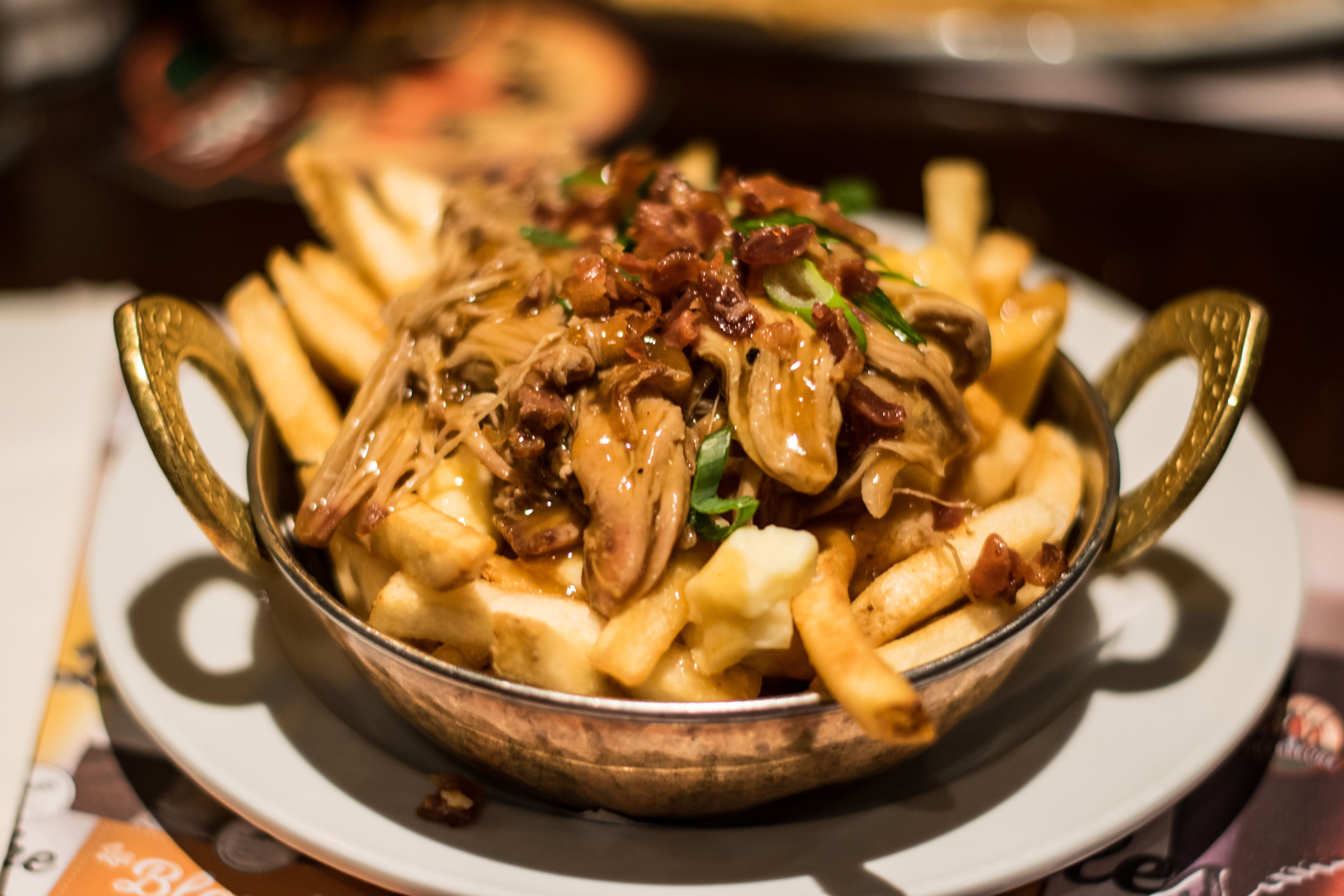 A poutine with pulled porc topping in the 3 Brasseurs Saint-Paul restaurant in Montreal, Quebec, Canada.